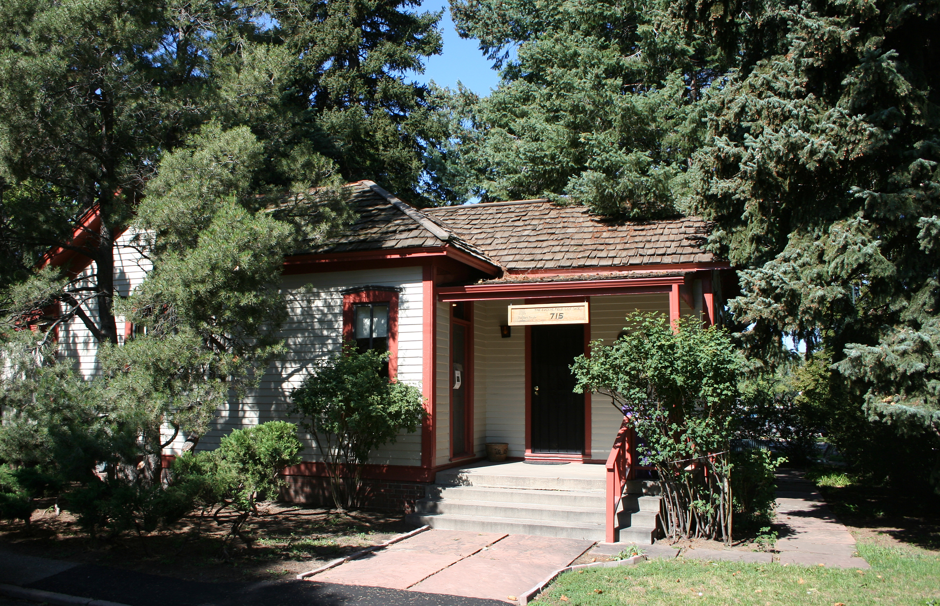 The Eugene Field House, located at 715 South Franklin Street in Denver, Colorado